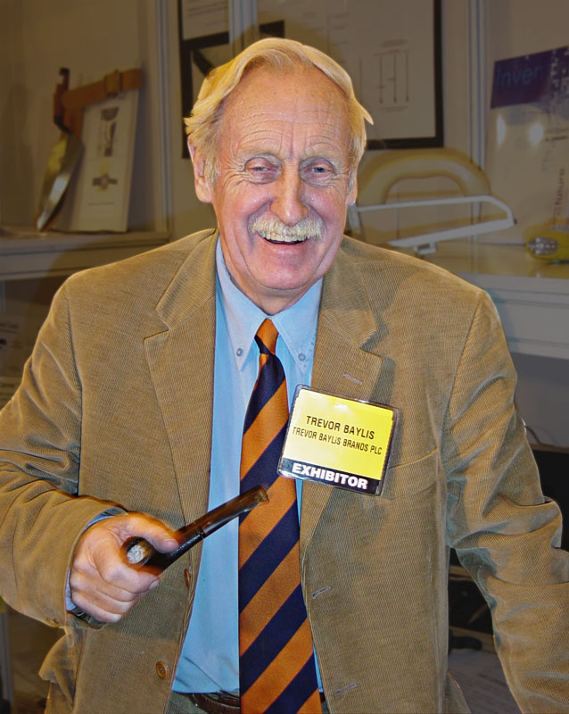 Photograph of Trevor Baylis taken by me for Wikipedia at the DIY and Garden Show in Earls Court (London) on 15th Jan 2006. The company Trevor Baylis Brands plc had a stand at the show, exhibiting some of the inventions they are promoting.